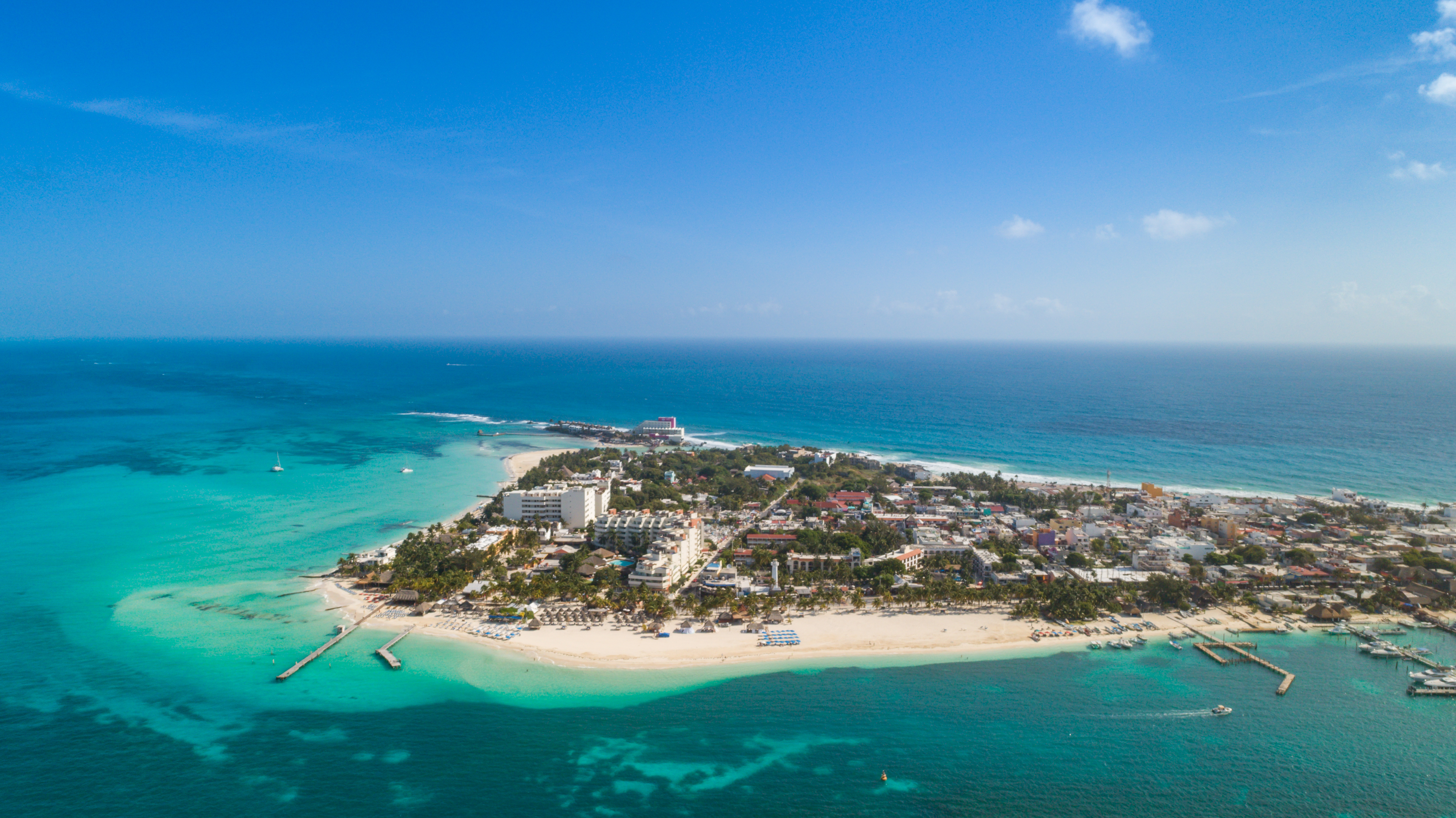 Caribbean Sea in Mexico